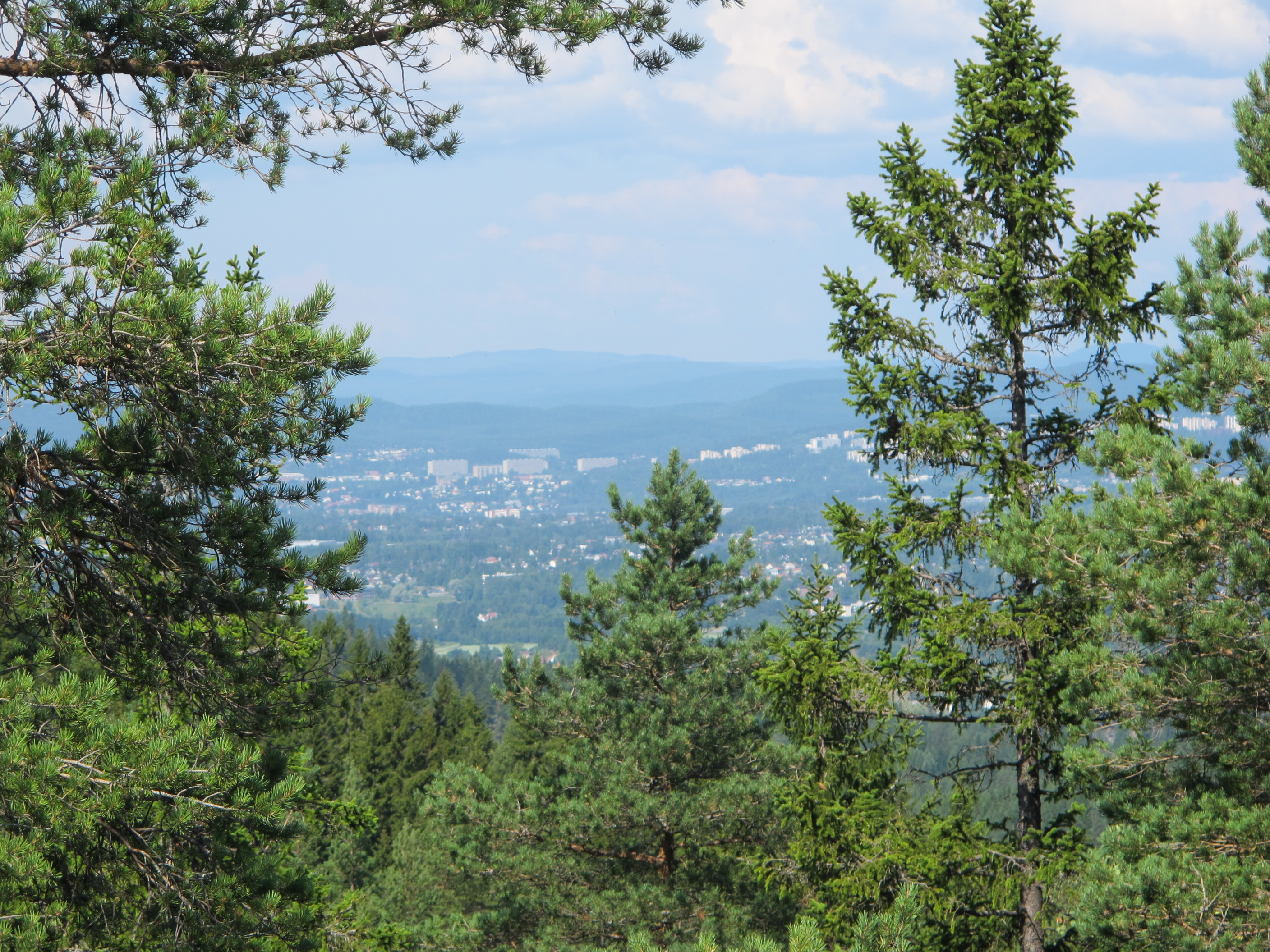 Ramstadslottet looking north